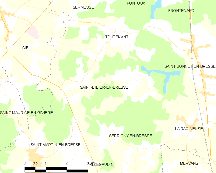 Map of French municipality